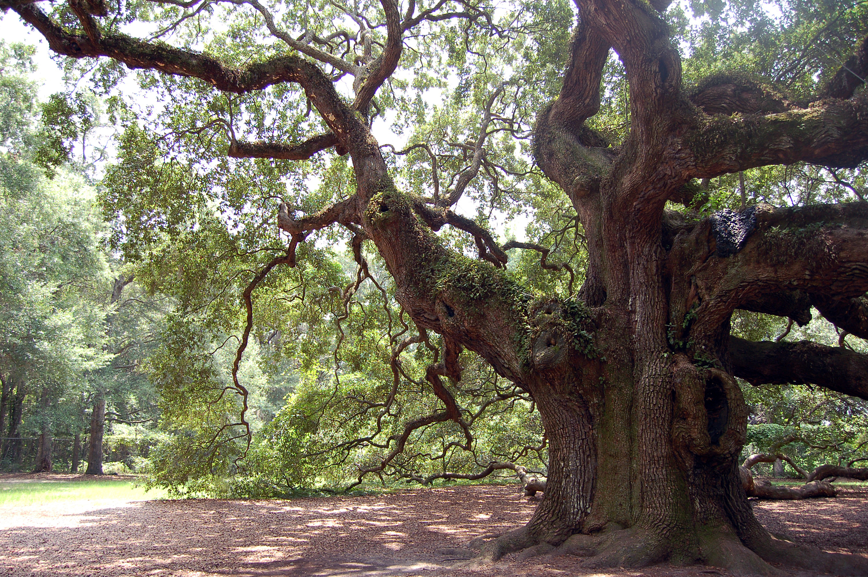 Angel Oak on Johns Island, South Carolina, an approximately 1400 year old Southern Live Oak (Quercus Virginiana)